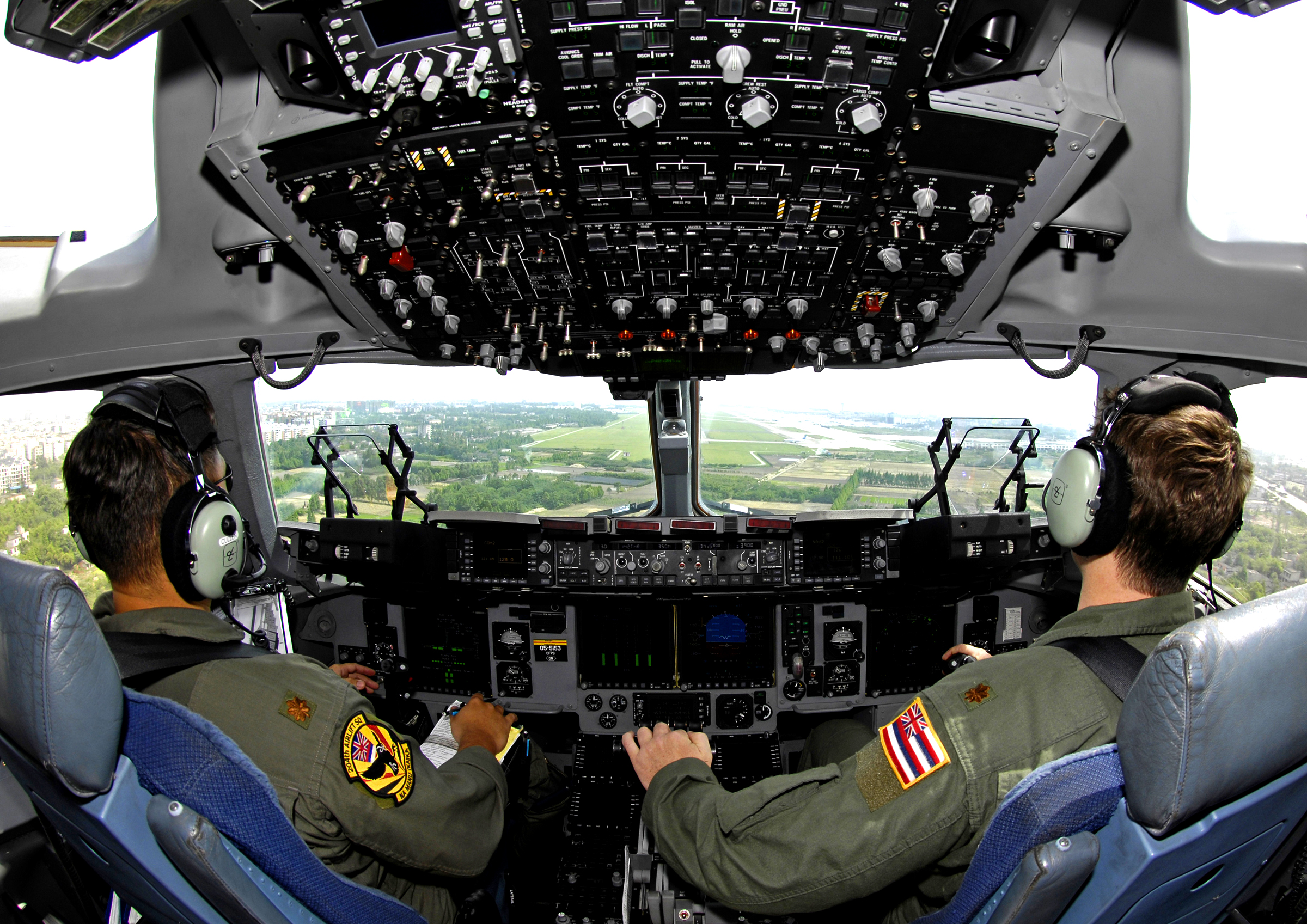 U.S. Air National Guard Maj. Troy Cullen and Maj. Anthony Davis prepare to land a C-17 Globemaster III at Chengdu Shuangliu International airport in China, May 18, 2008. The United States Pacific Command support of earthquake relief efforts was authorized by Defense Secretary Robert M. Gates in support of the U.S. State Department. The C-17 pilots are assigned to the Hawaii Air National Guard's 204th Airlift Squadron, Hickam Air Force Base, Hawaii.